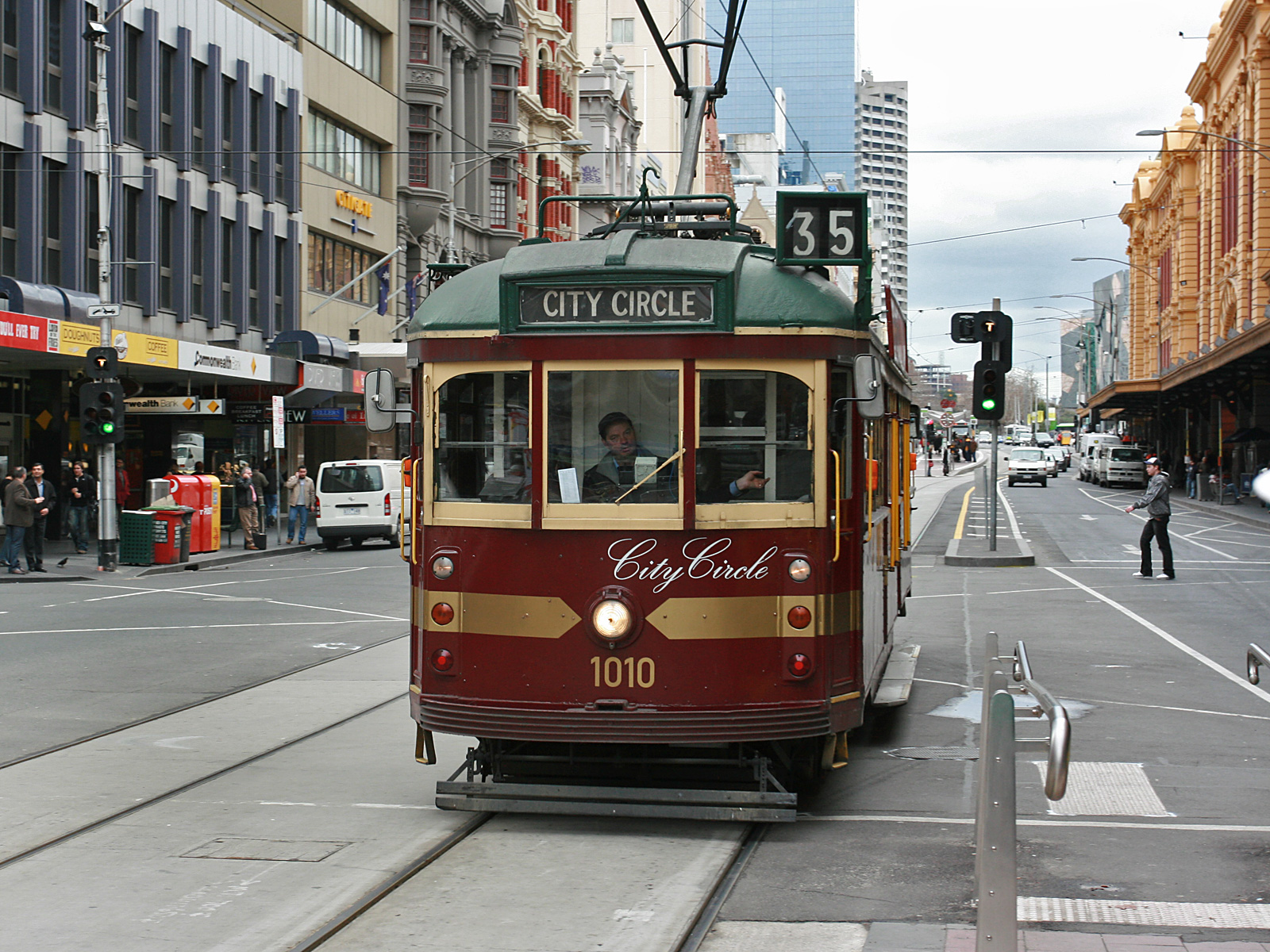 City Circle Tram, Route 35, at the corner of Flinders St and Elizabeth St (looking east), Melbourne, Australia.